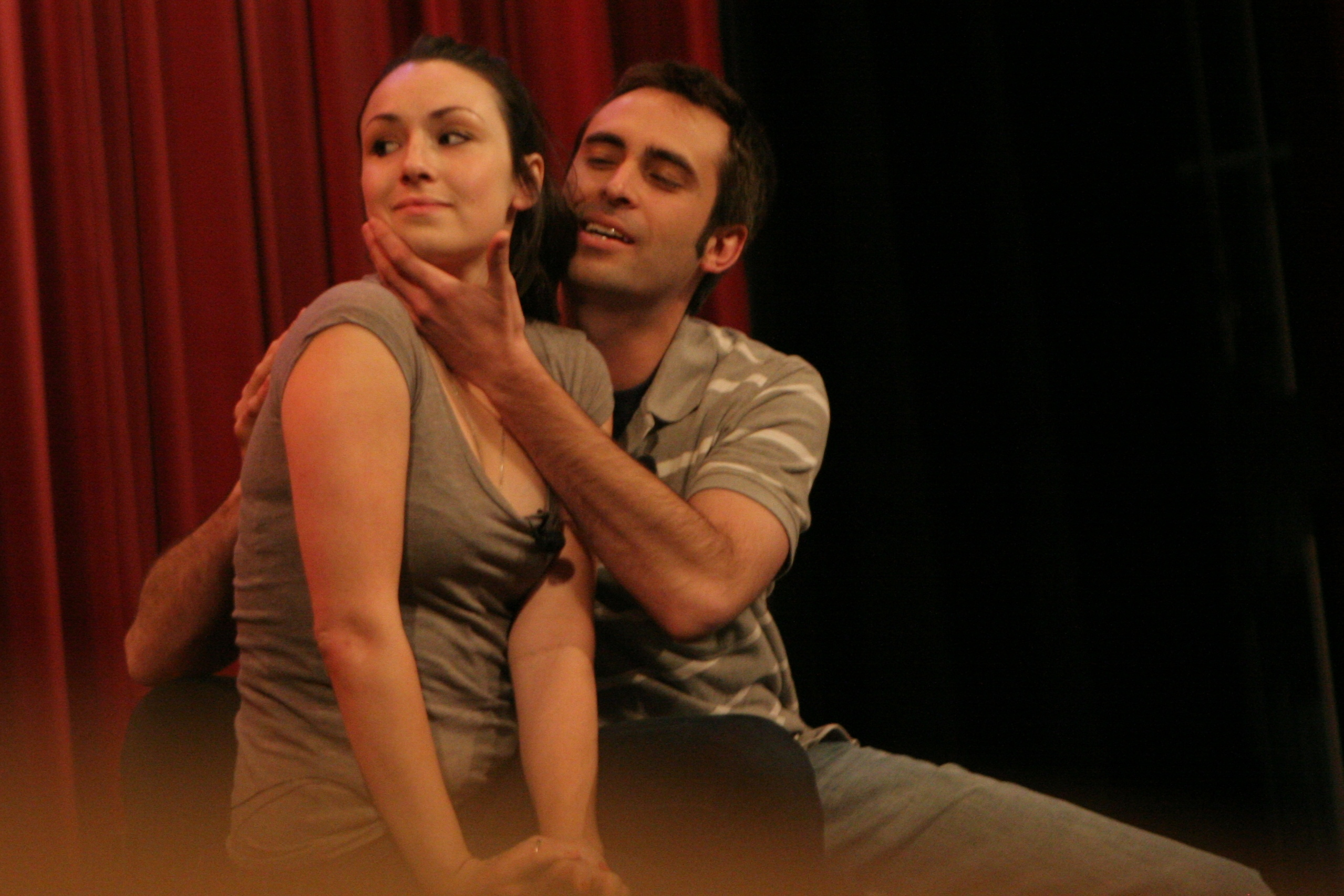 Brian Golden, from Chicago, and Libby Matthews, from Seattle, performers of Catharsis Productions, act out scenarios in which a man acts inappropriately toward a woman during the comedic play 'Sex Signals.' The play's intent is to send out a message about sexual assault prevention. The goal of the play is to also help service members understand what consent is and that 'no means no.'